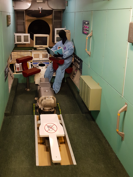 Базовый Блок станции Мир станции «Мир» — макет в Музее космонавтики на ВДНХ, доступен для посещения.